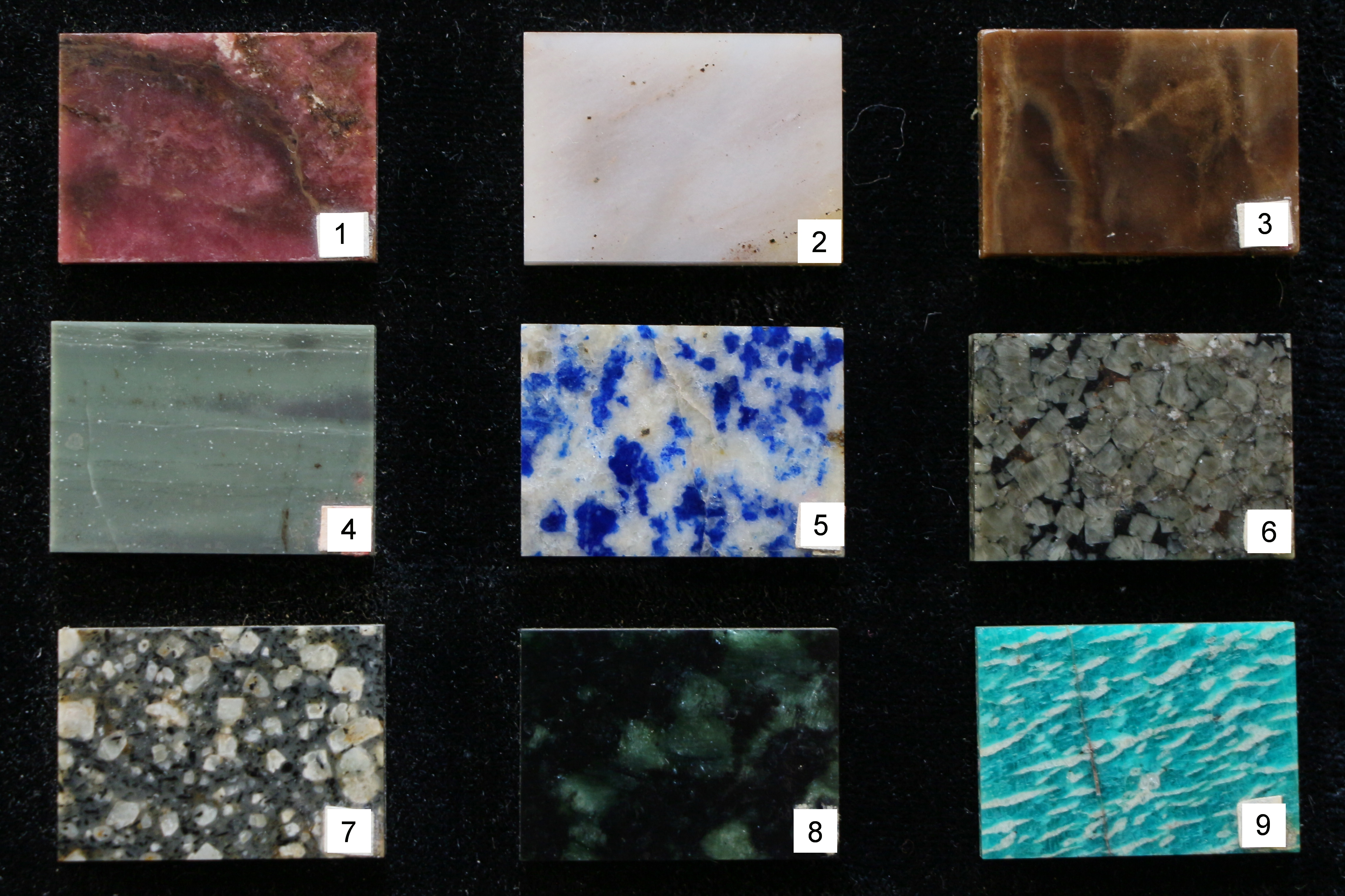 1 Rhodonite, 2 Quartzite, 3 Onyx, 4 Ofiocalcite, 5 The Lapis Lazuli, 6 Cibinic, 7 Porphyrite, 8 Coil, 9 Amazonite. All these stones can be divided into groups. Group 2. 2. 1. Brightly colored stones — rhodonite, lapis lazuli, amazonite, Jasper. Group 2. 2. 2. Patterned stones — graphic pegmatite, petrified wood, patterned flint, Jasper, heliotrope, overflow, obsidian. Group 2. 2. 3. Pseudochromidae stones — moonstone, Falcon, tiger, cat eye, silver, obsidian, mother of pearl, aventurine. ... Group 3. 2. 2. Opaque or subprovincial stones — marble, ophicalcite, calciphyres, anhydrite, alunite, coils, chlorite, serpentine rocks. Used for the manufacture of flattened shapes and sculptures. 3. Soft stone (hardness of less than 3).